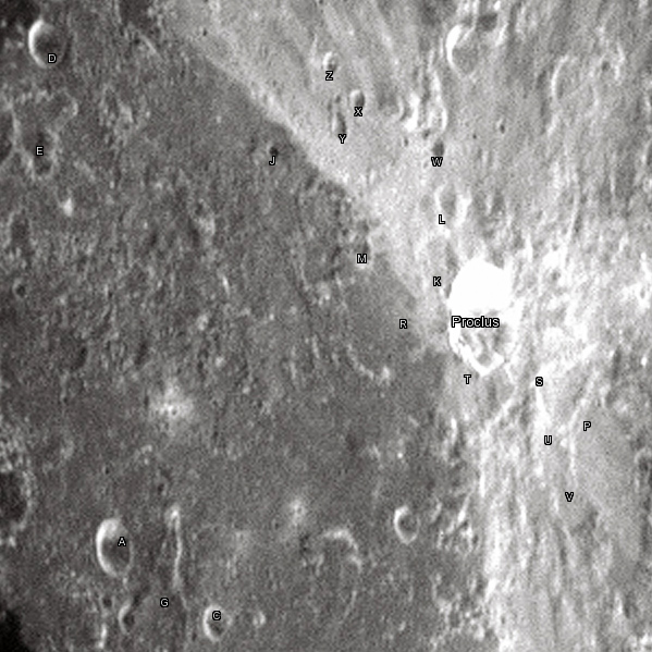 Proclus lunar crater as seen from Earth with satellite craters labeled